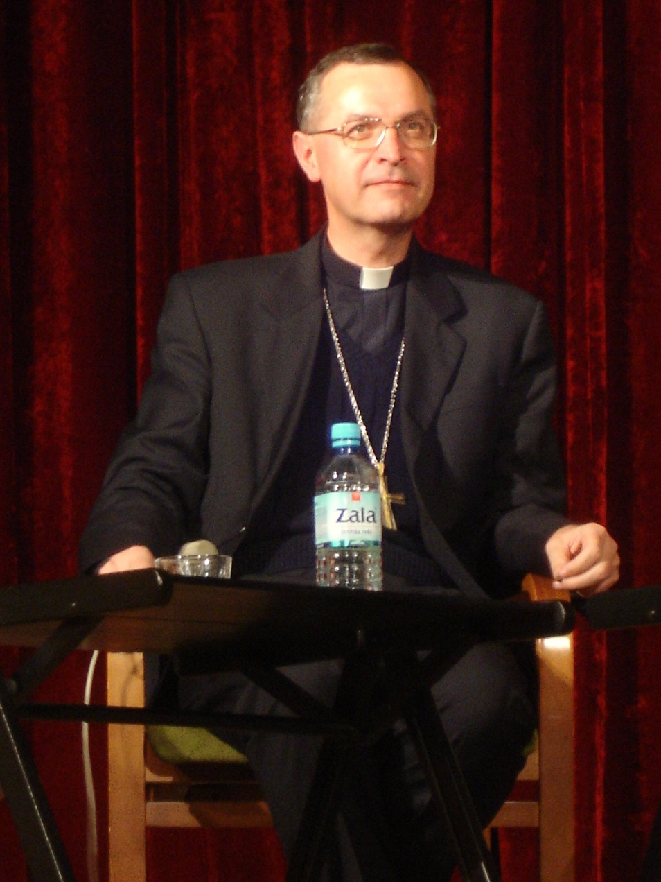 Marjan Turnšek, bishop of Murska Sobota (Slovenia), pictured on Nikodemovi večeri in Maribor. (Croped picture)